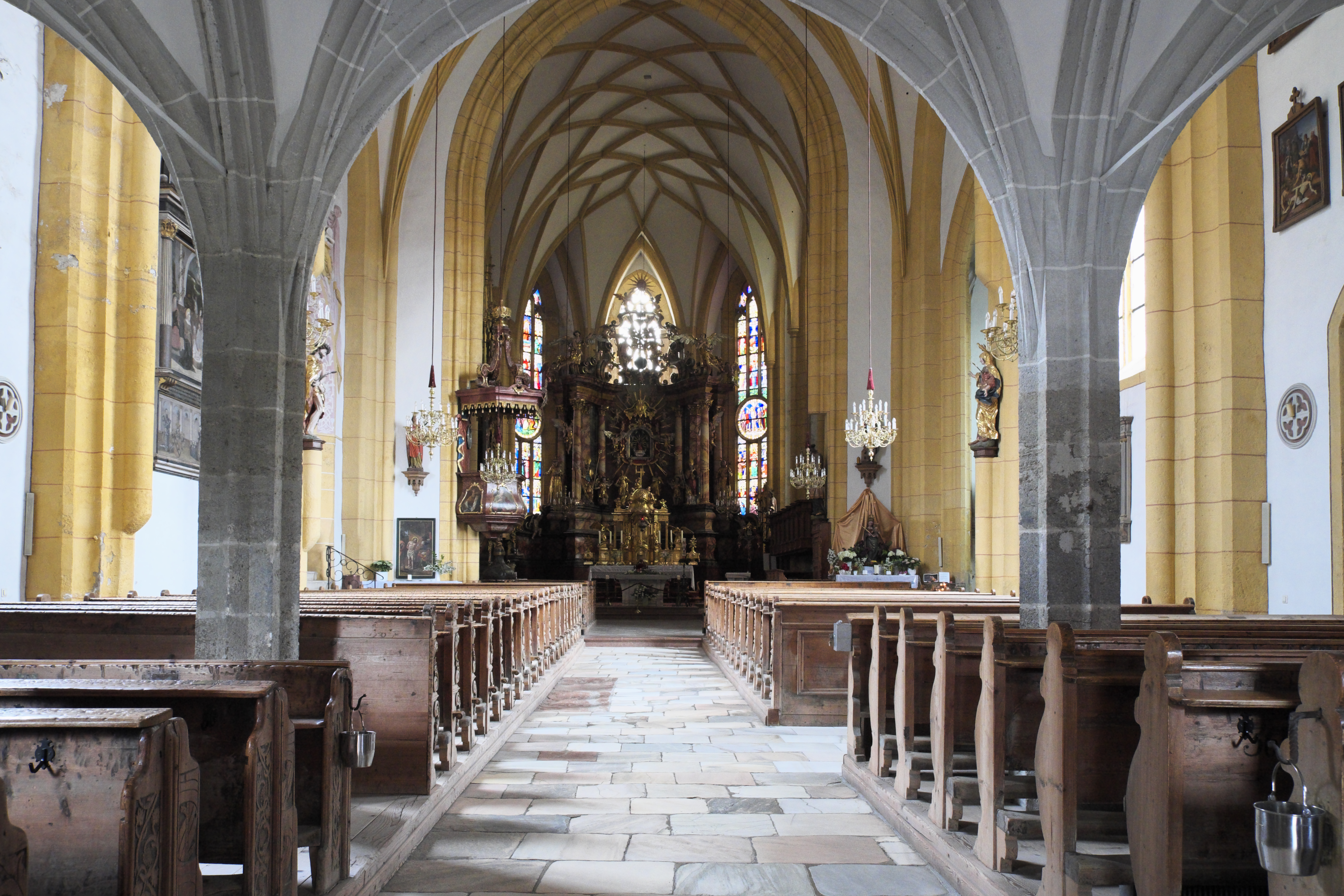 Banks at the left are from early 16th century.